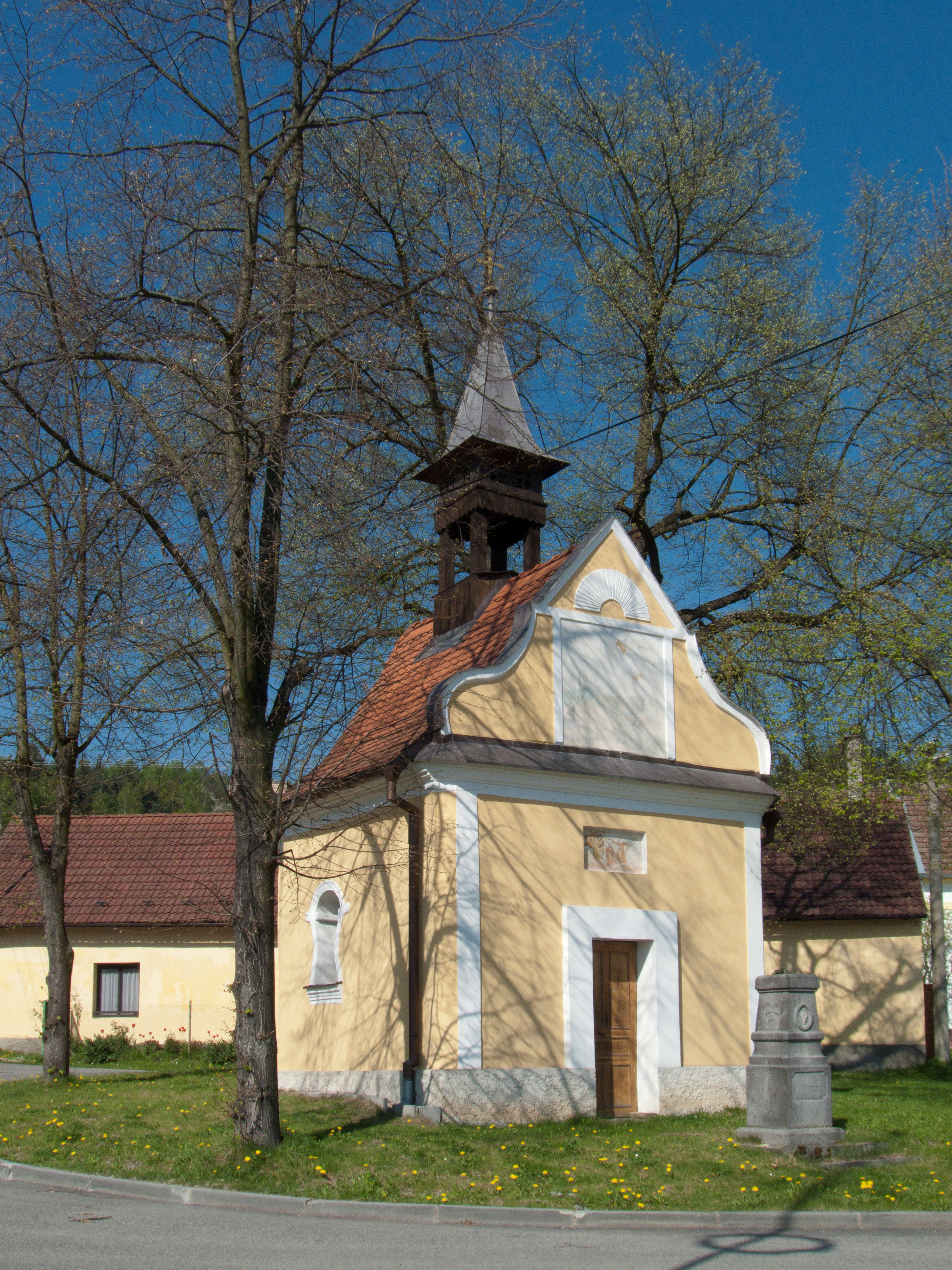 Saint John of Nepomuk Chapel in the village of Kuřimany, Strakonice District, Czech Republic. Česky: Kaple sv. Jana Nepomuckého v obci Kuřimany v okrese Strakonice.